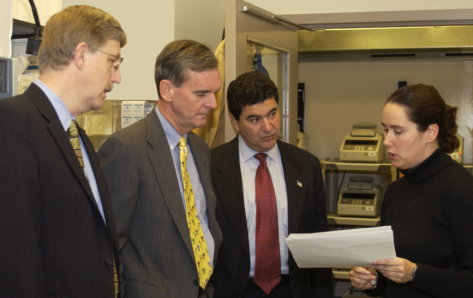 Left to right, Dr. Francis Collins, director of NHGRI; Sen. Judd Gregg (R-NH); and Dr. Elias A. Zerhouni, director of the National Institutes of Health (NIH); talk with researcher Dr. Elizabeth Gillanders during a visit to an NHGRI lab.